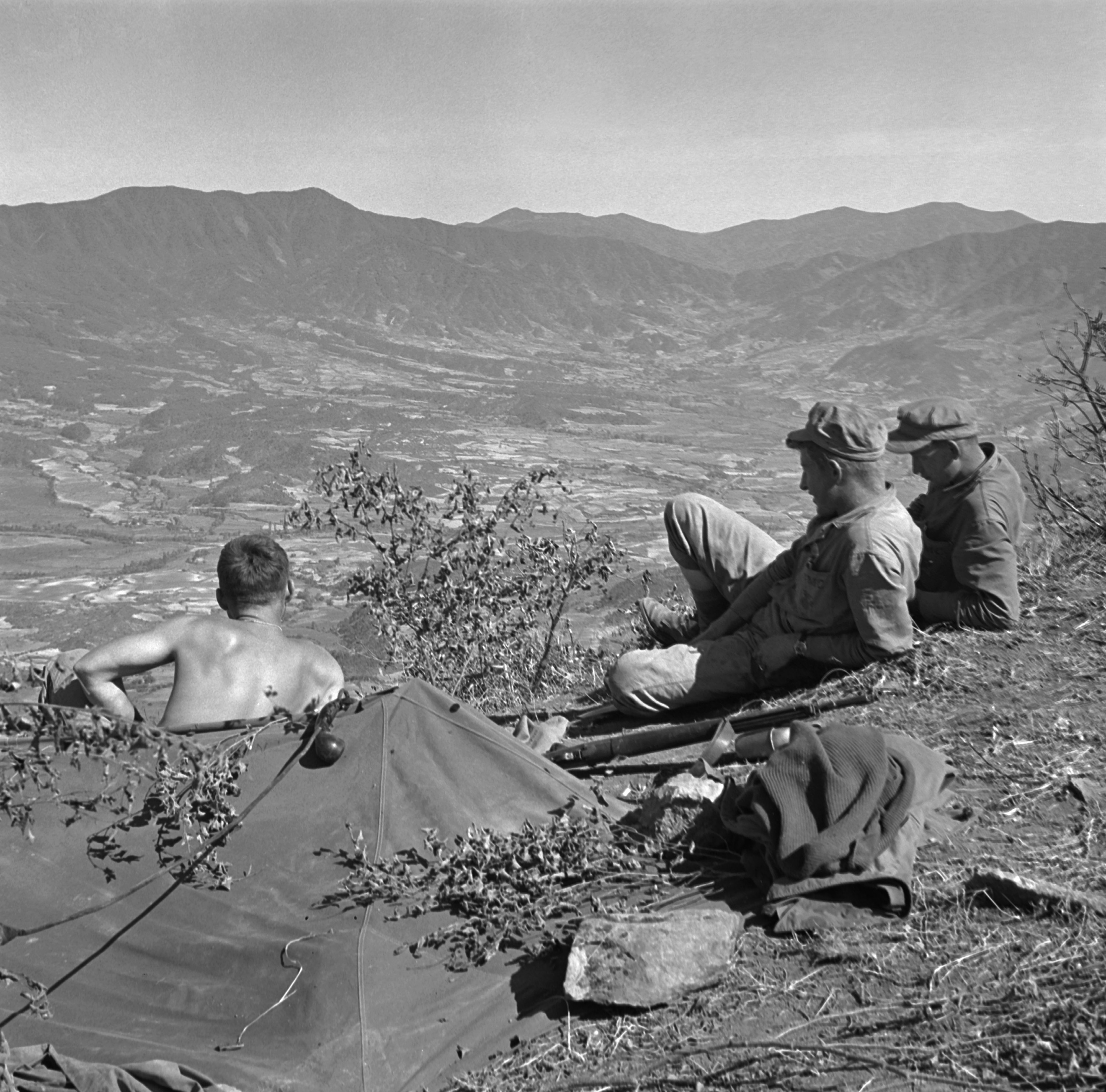 The natural beauty of this quiet scene in North Korea means little to these 1st Marine Division Leathernecks as they rest during a "lull" in the UN struggle for "Punchbowl Valley." In the wide, calm valley before them, each green field may hide a Communist gun position, each tree an enemy sniper. NARA FILE# : 127-GK-234B-A155066